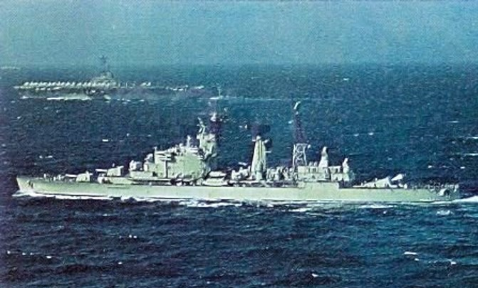 Picture is cropped from . The cruiser visible is Hr.Ms. De Zeven Provinciën (C802), the aircraft carrier USS Essex (CVS-9) is visible in the distance.